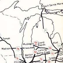 Michigan portion of Interstate Highway plan approved June 27, 1958